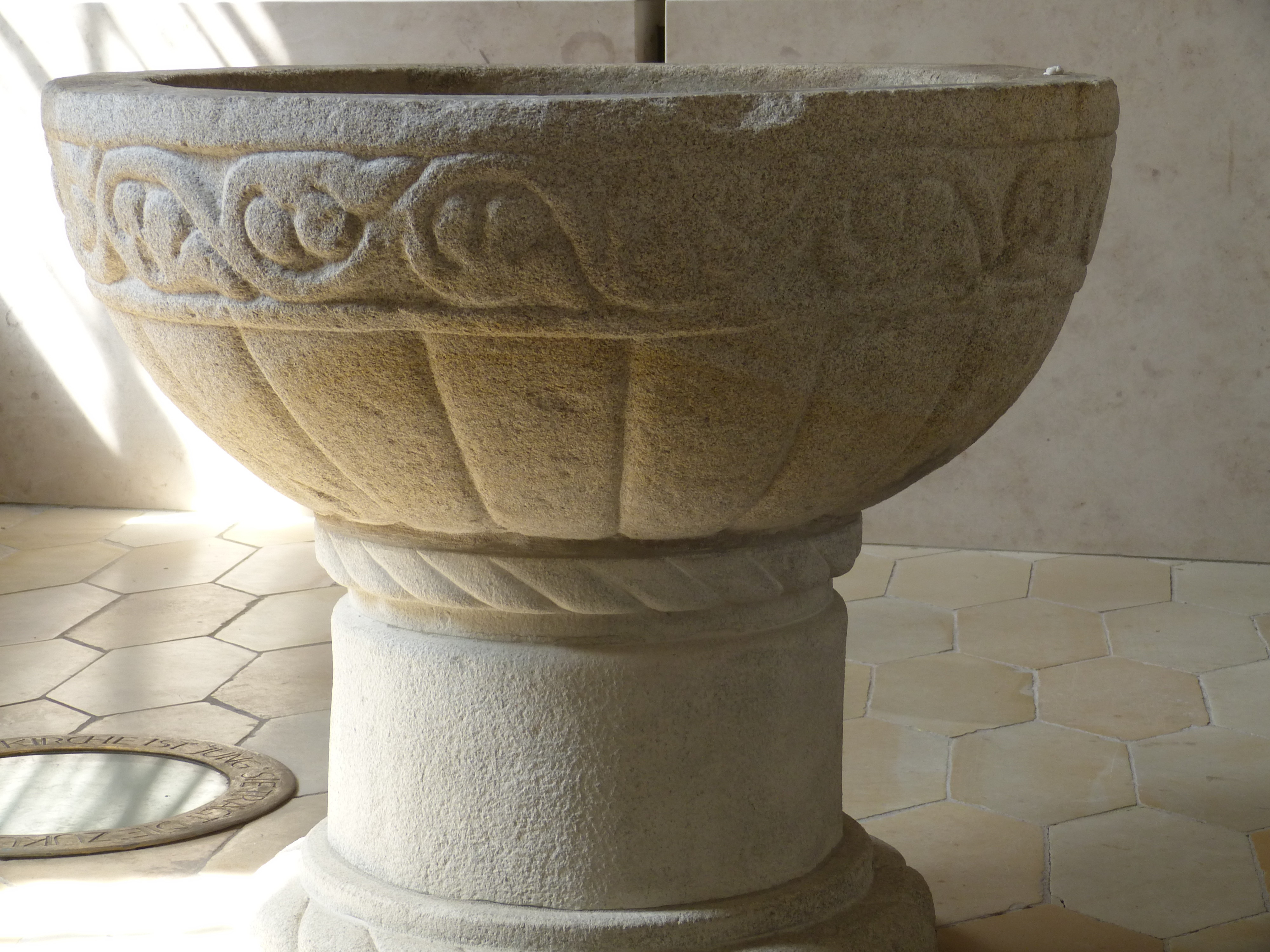 Landau an der Isar ( Lower Bavaria ). Mary Assumption parish church: Romanesque baptismal font ( 13th century ).